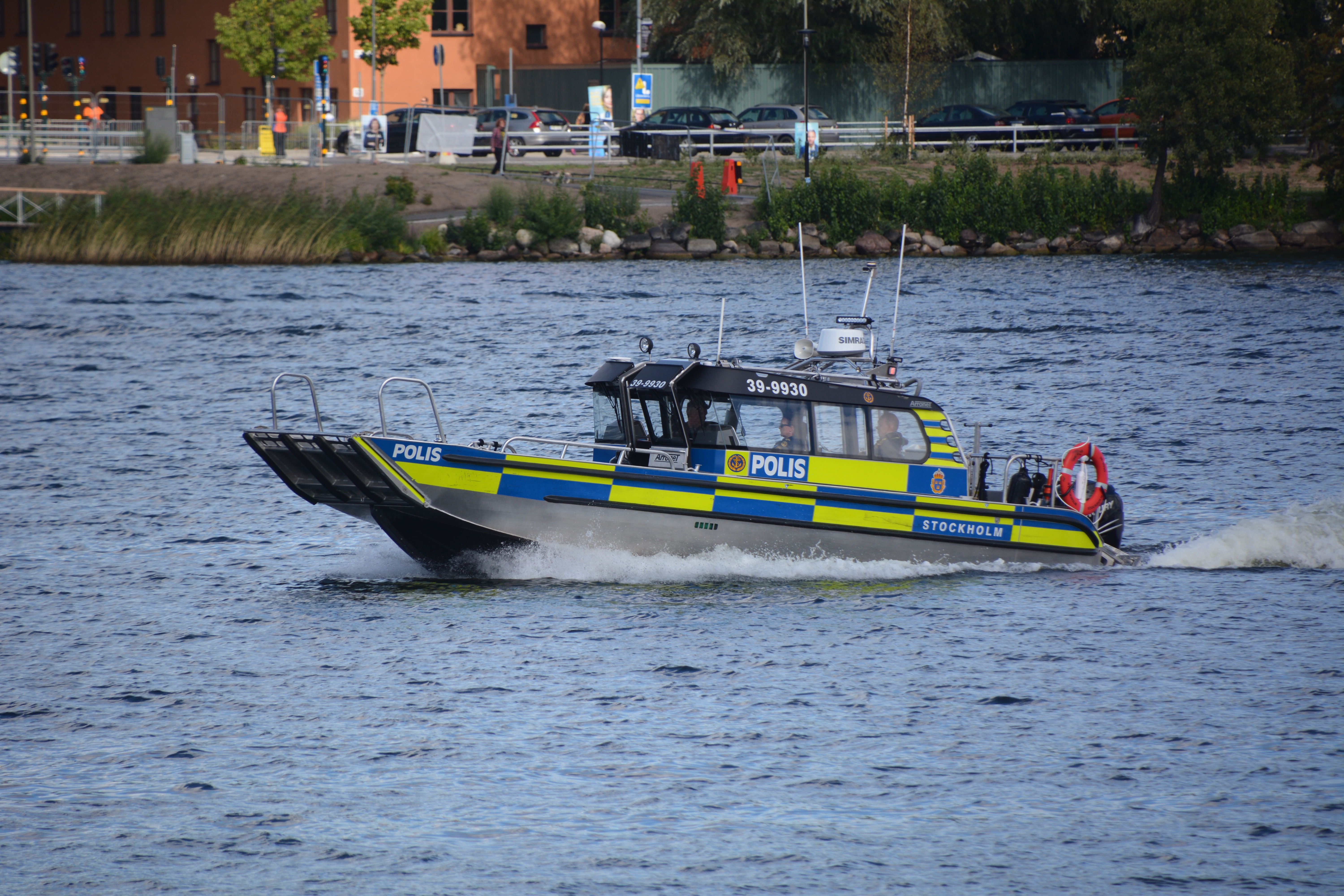 Polis vessel 9930 in Stockholm, built 2018.Type: Arronet 30 Surprise Work}Length: 9.3 meterEngines: 2 Mercury 250 V8